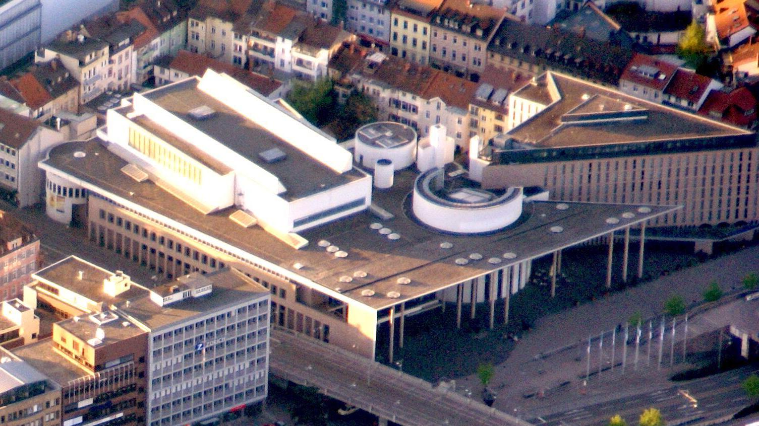 Aerial view of the Concert Hall in Freiburg, Breisgau, Germany